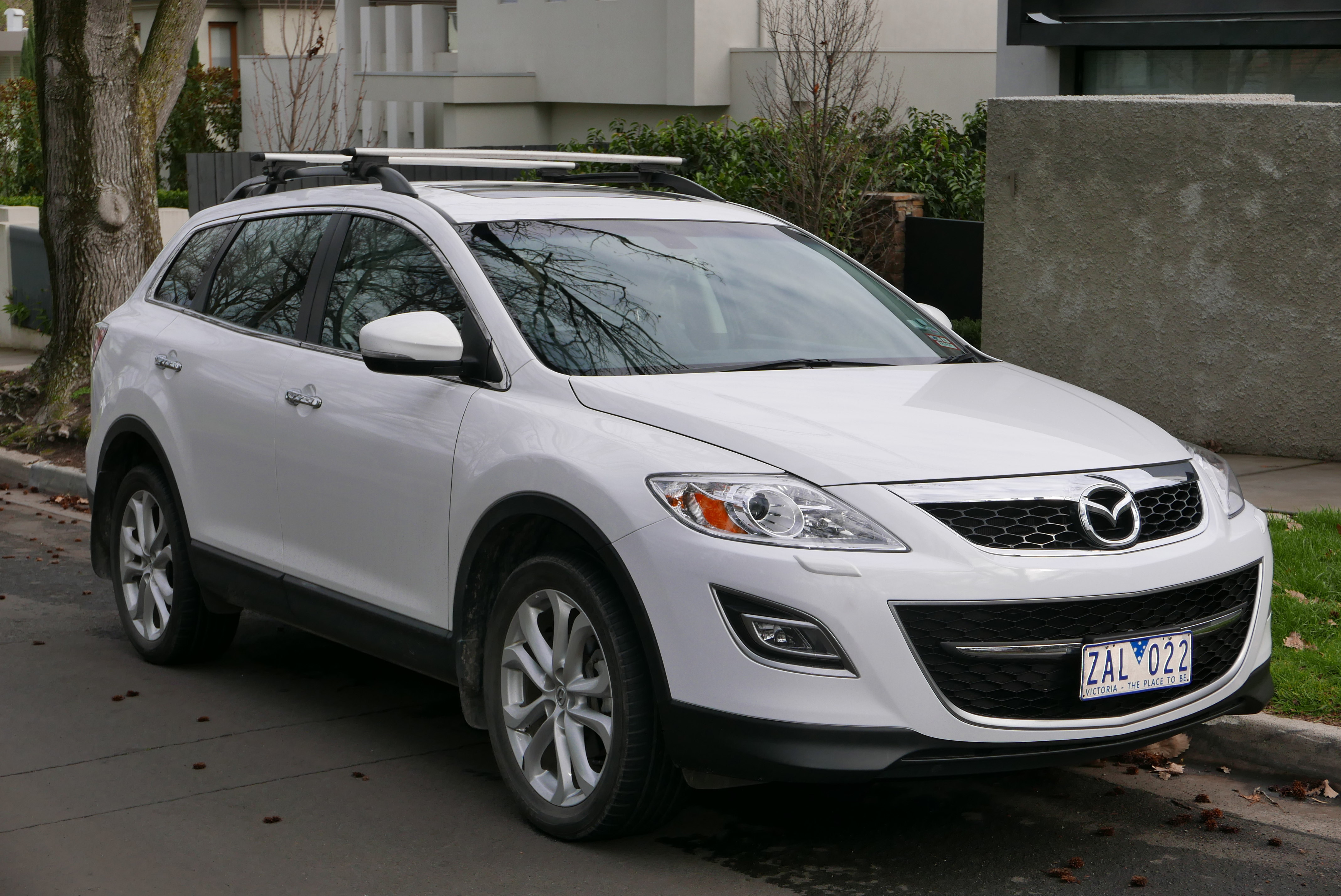 2012 Mazda CX-9 (TB Series 4 MY12) Grand Touring AWD wagon. Photographed in Hawthorn East, Victoria, Australia. Vehicle registration enquiry resultsJurisdictionVictoriaRegistrationZAL022Chassis codeJM0TB10A4C0313307Engine codeCA10427315Compliance date2012-03Year of manufacture2012